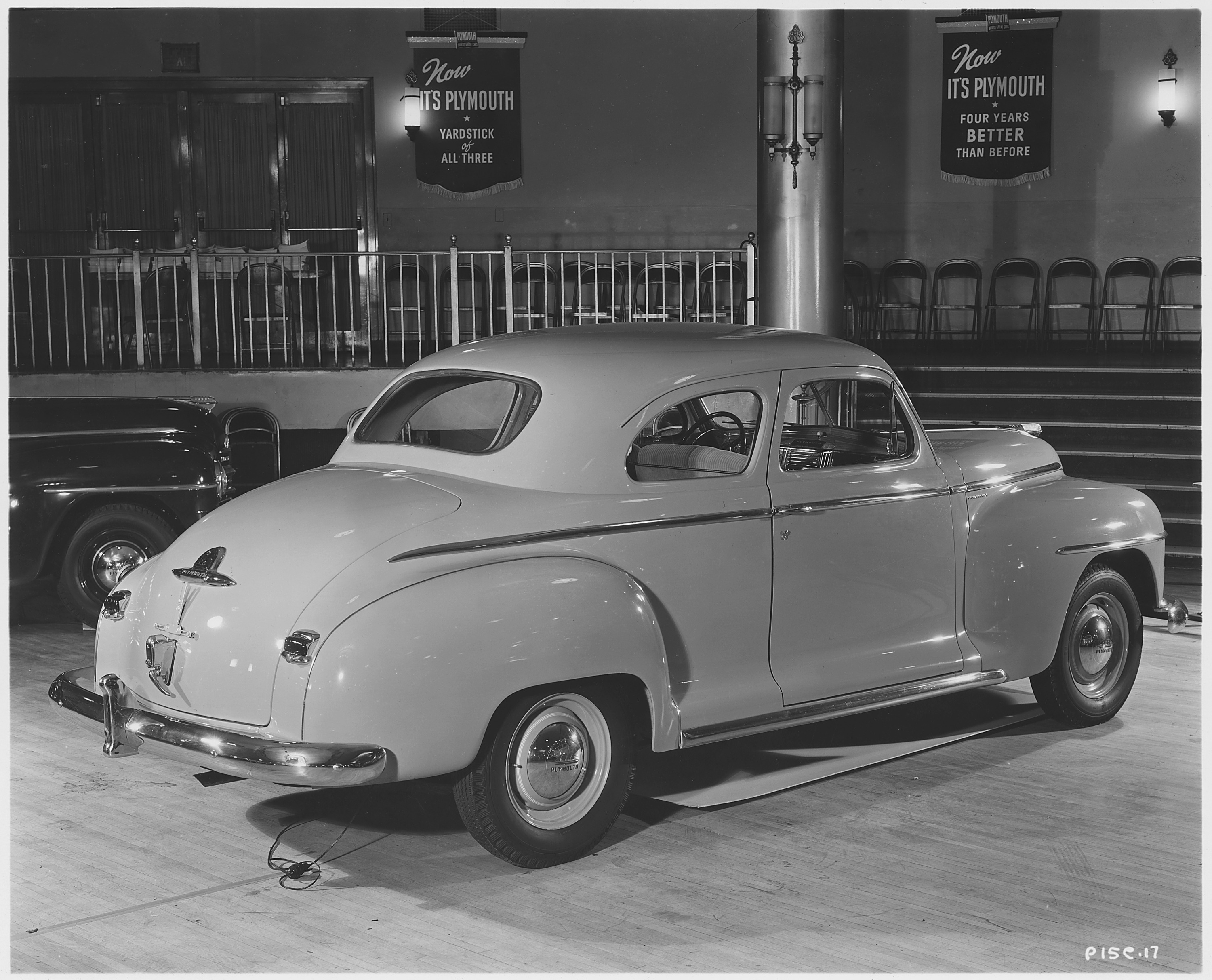 Scope and content: Photos of auto body designs. Some portray the actual automobiles, others are drawings. General notes: 1946 Plymouth Special Deluxe (P15C) Coupe